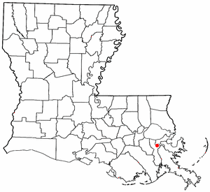 Map of Louisiana, dot on Marrero